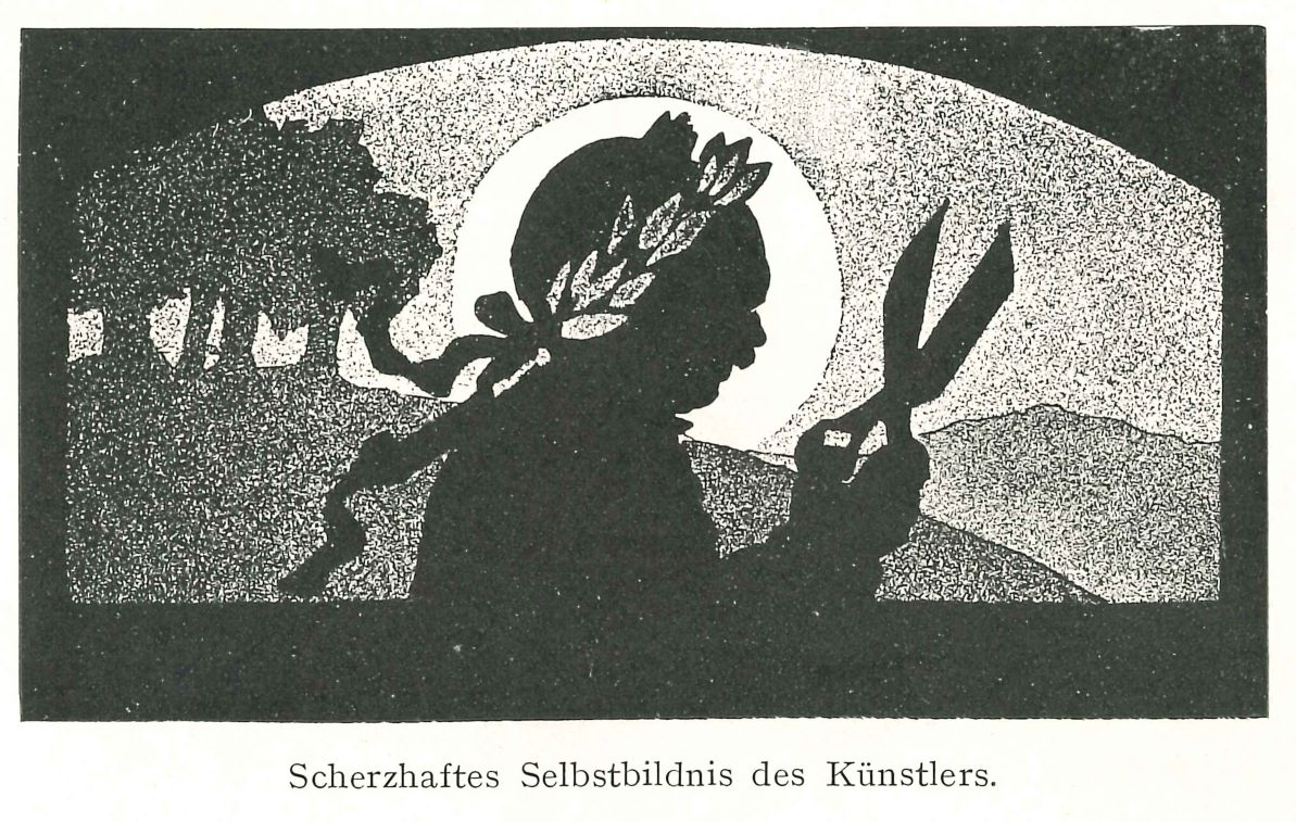 Otto Böhler: jocular self-portrait of the artist; photo of Böhler´s silhouette printed on thick card